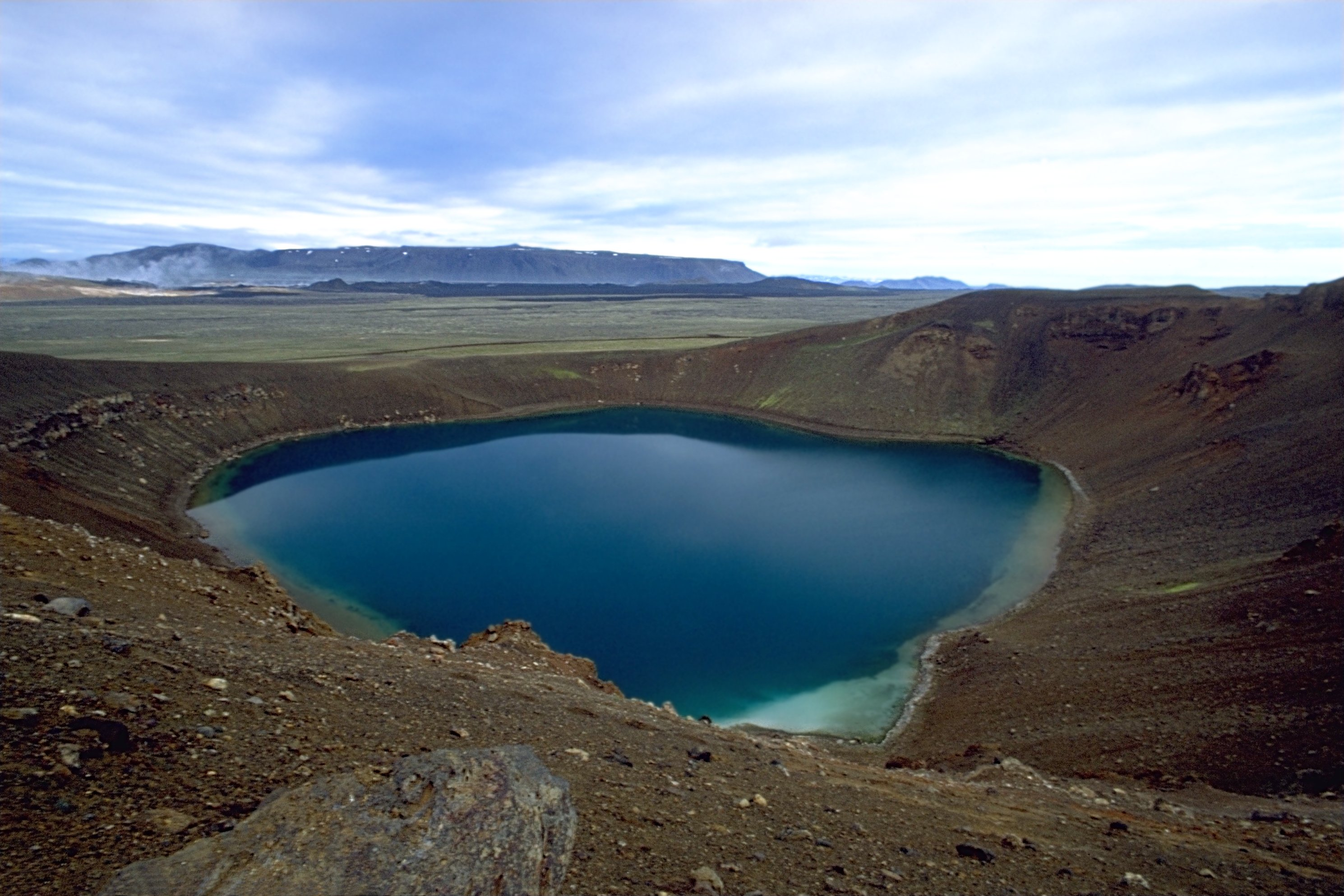 Víti, part of Krafla, Iceland Photo was taken using the following technique: Film: Fuji Velvia Lens: 2.0/20 Filter: Body: Minolta Dynax 600si Support: Gitzo Monotrek Image with Information in English Bild mit Informationen auf Deutsch